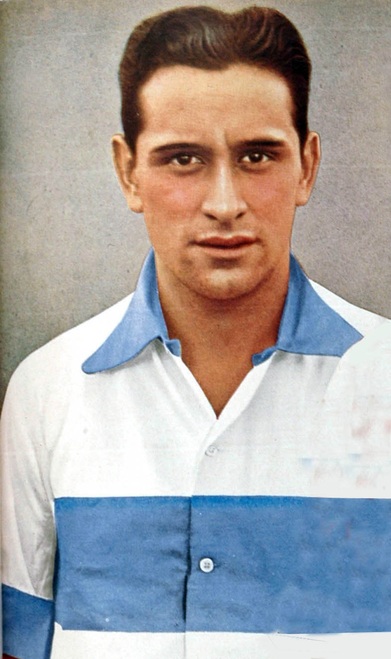 This is Arturo Naón. The top scorer of Club de Gimnasia y Esgrima La Plata.